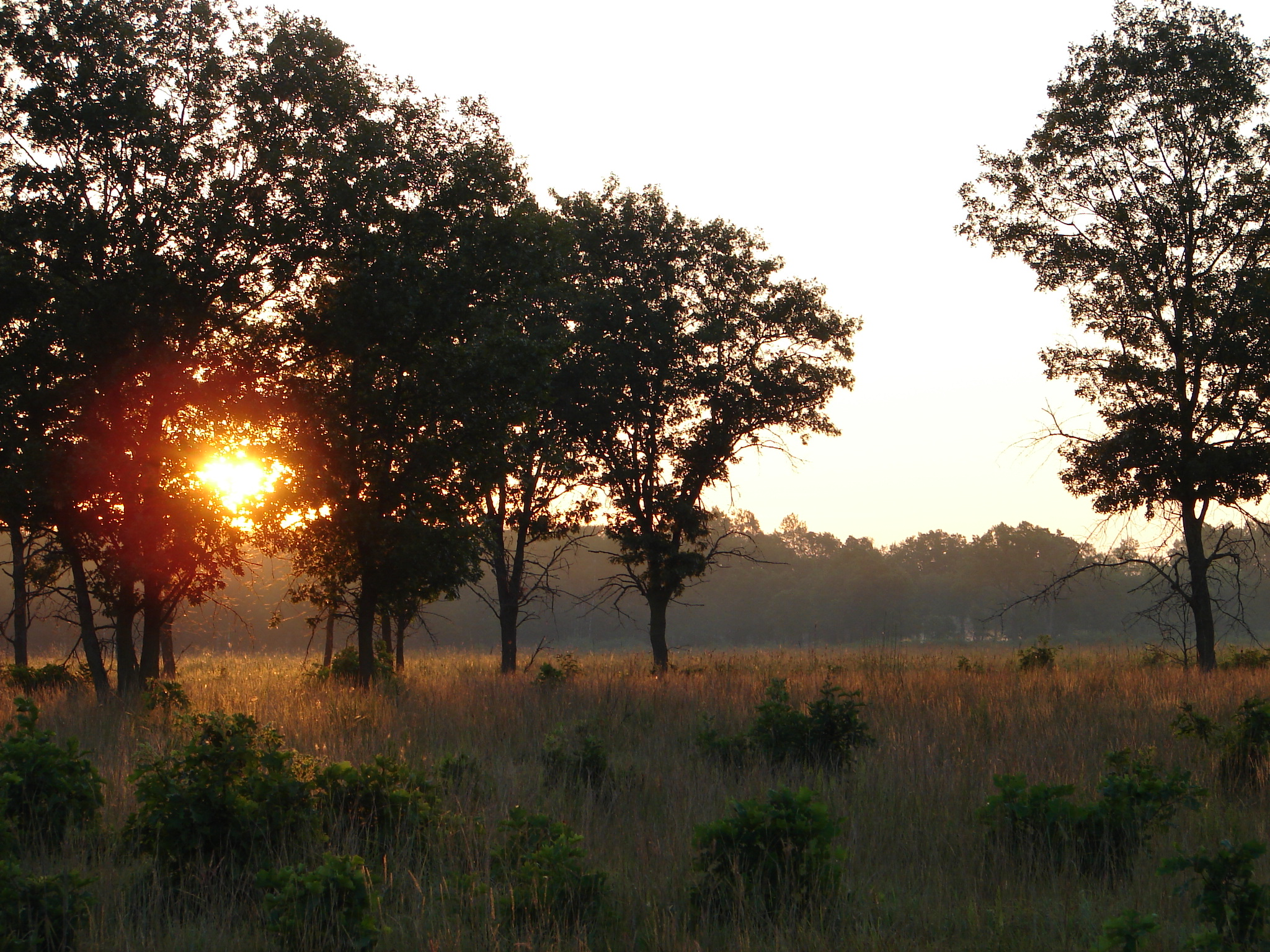 The sun sets on the savanna at Necedah National Wildlife Refuge in Wisconsin. Credit: USFWS